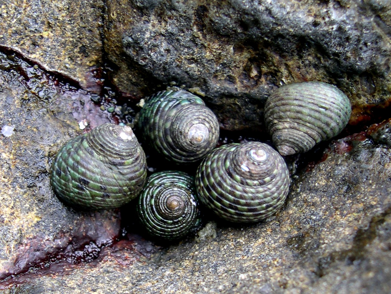 Monodonta sp. (Monodonta australis auct. non Lamarck, 1822) from Chichijima Island, the Ogasawara Islands, Tokyo, Japan.